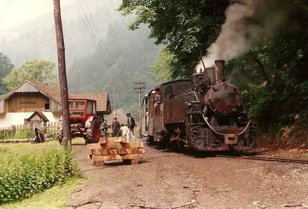 Station Cozia on the railway Vișeu